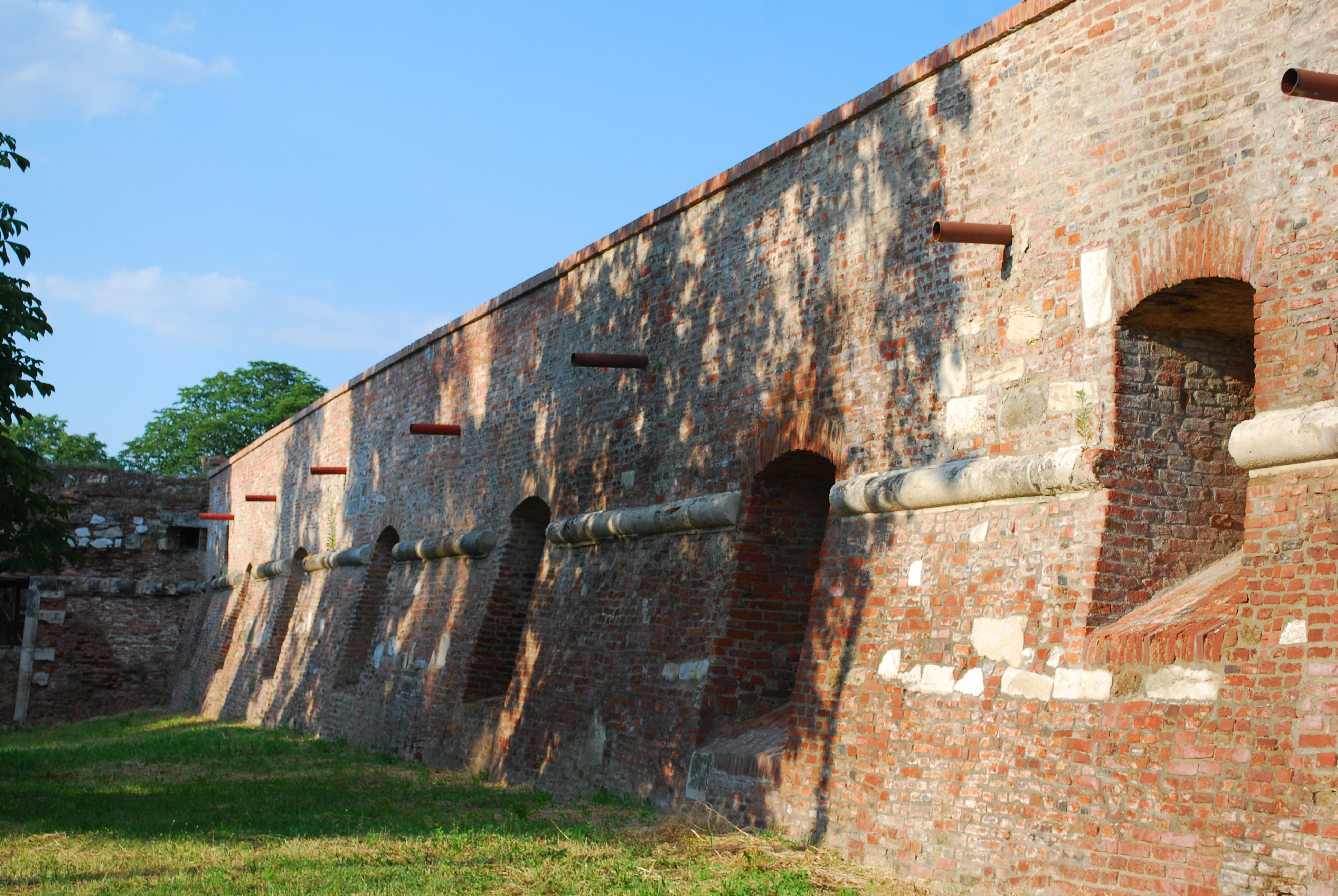 Oradea, Romania city wallsRomână: Zidurile cetăţii Oradea